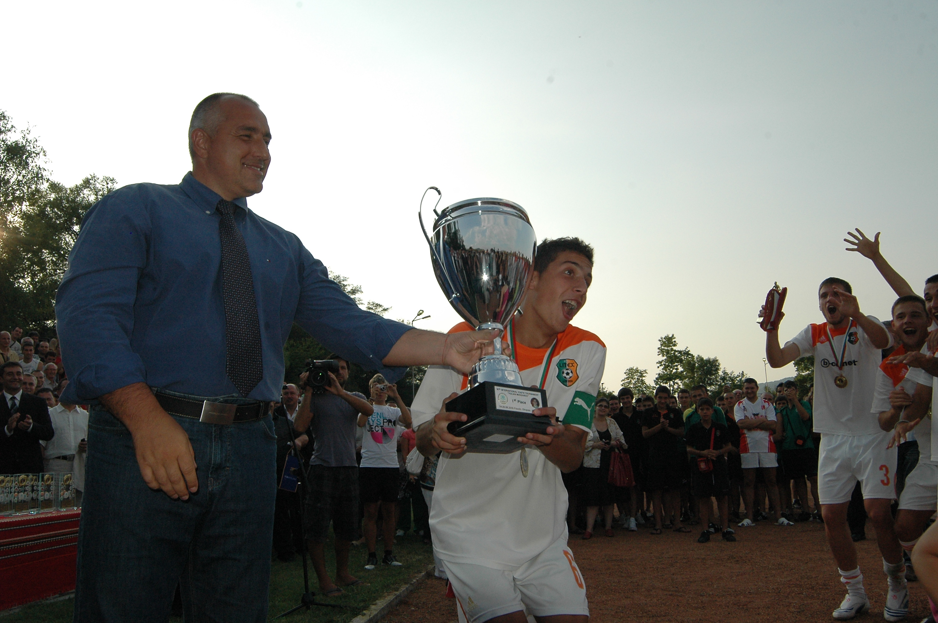 Maxim Stoykov